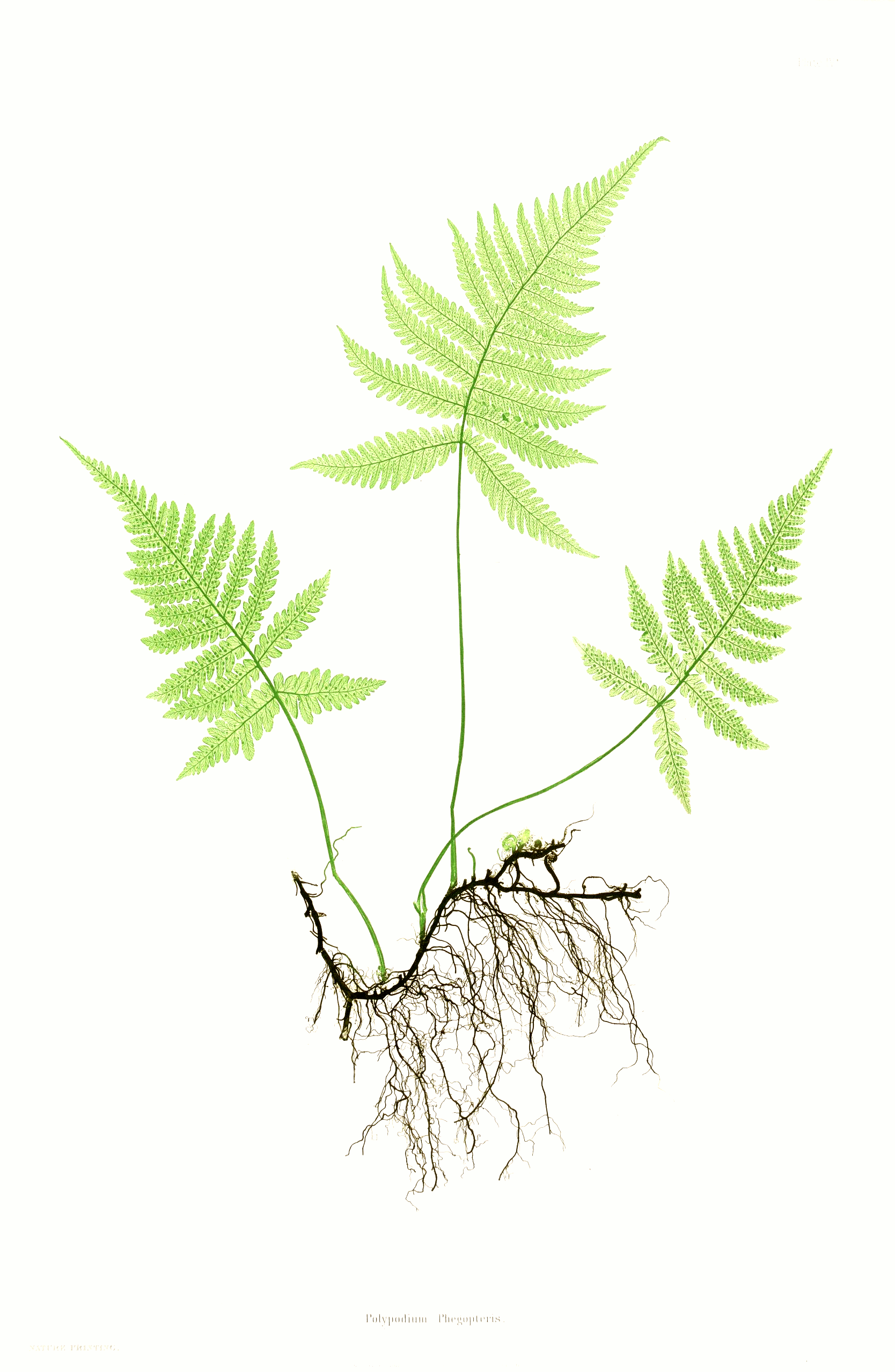 Plate from book